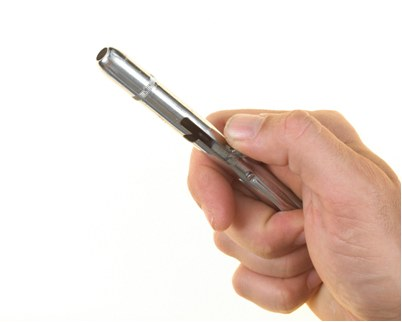 The bolt head of this Pen Gun is pulled back and allowed to travel forward, firing a .38 special caliber cartridge.